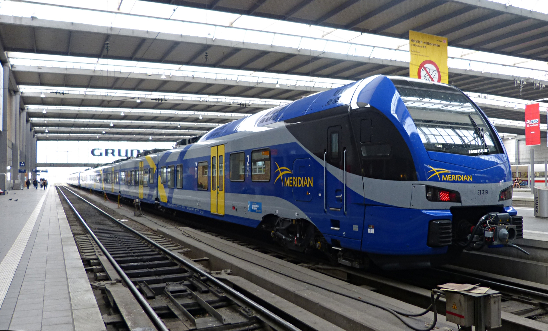 German EMU ET 319 of Bayerische Oberlandbahn as local train "MERIDIAN" at Munich Mainstation